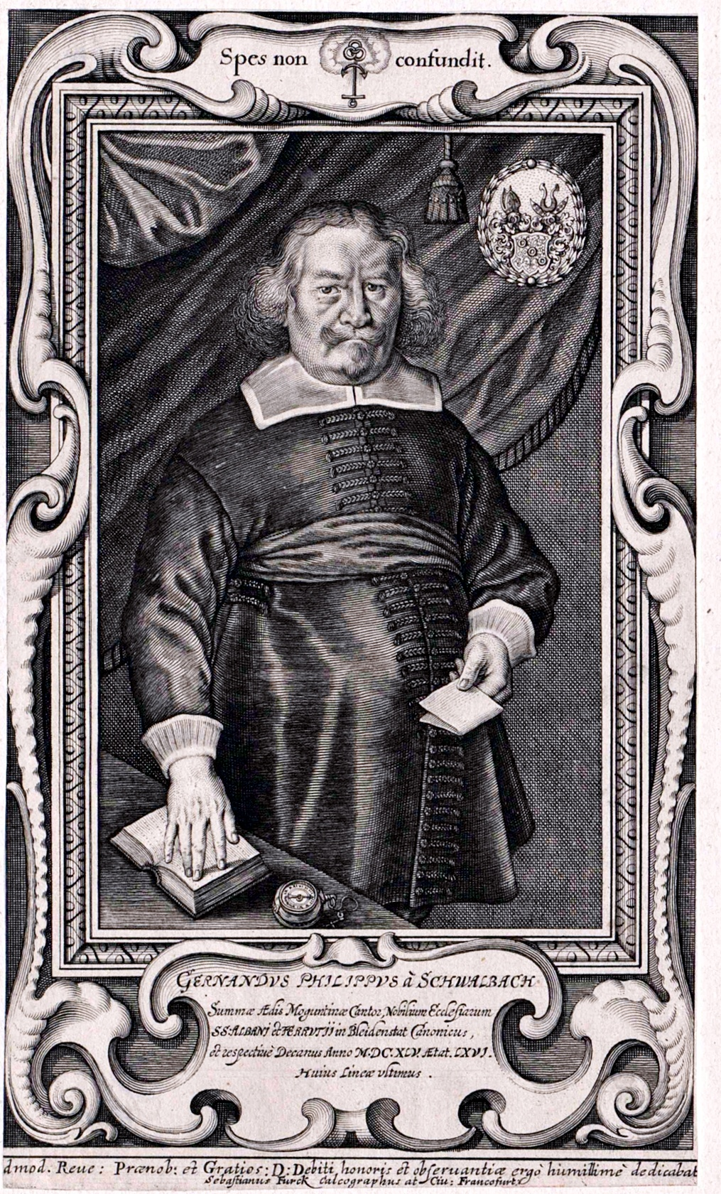 Gernand Philipp von Schwalbach (1579-1647) Domkantor in Mainz, Sohn des kurmainzischen Amtmannes Gernand von Schwalbach (1545-1601)